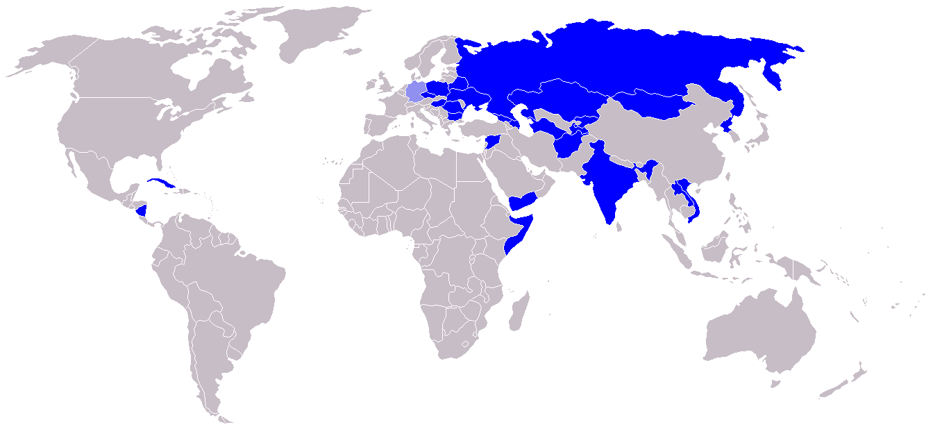 Member countries of Intersputnik 2013